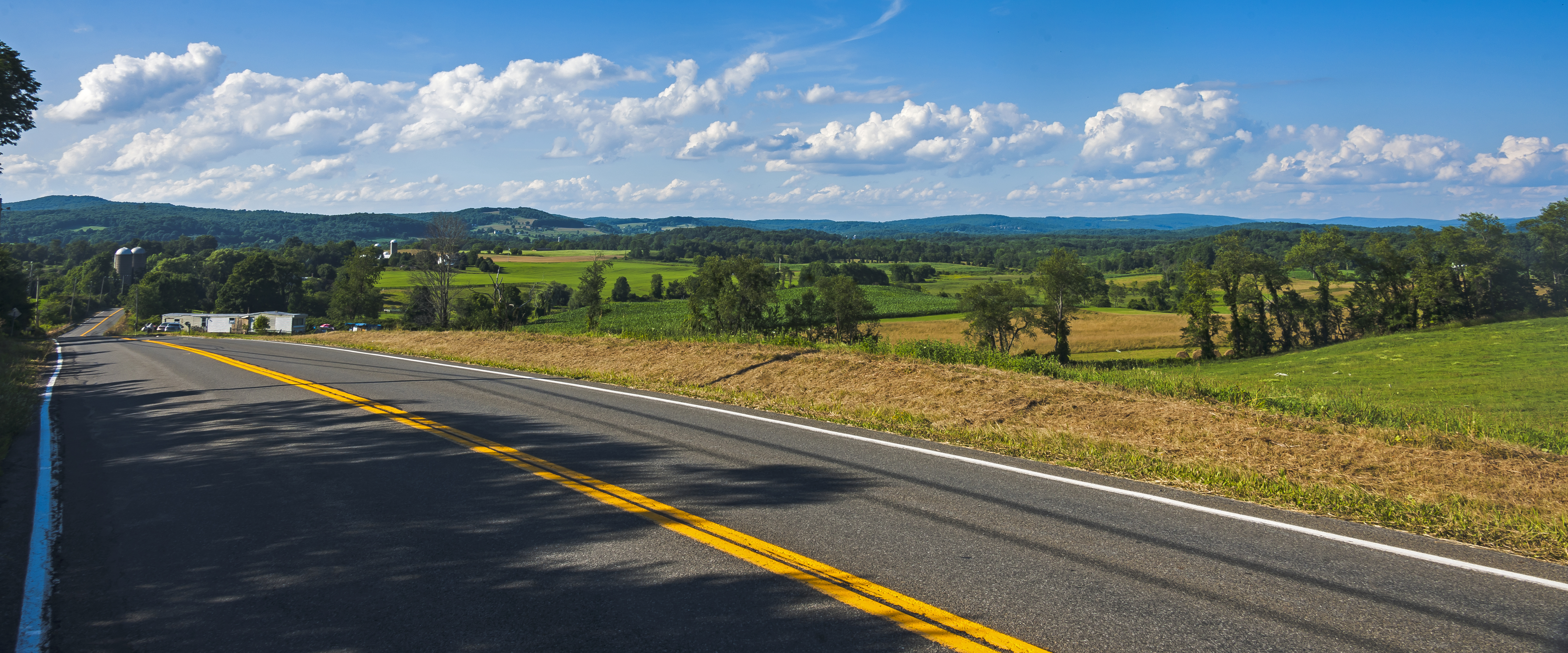 The landscape of eastern Columbia County, NY, sprawls off from this stretch of NY 82 between Ancramdale and Ancram.